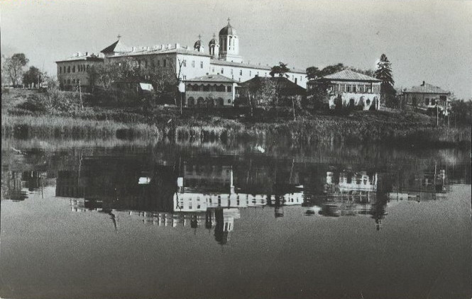 Căldărușani monastery, Romania